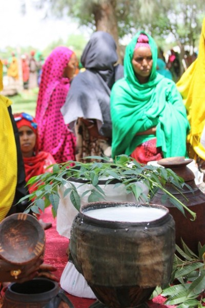 As part of the Camel Milk Value-Chain Development project ceremony, women from Fafan village in the Somali Regional State offer fresh camel milk and other local delicacies in traditional containers.